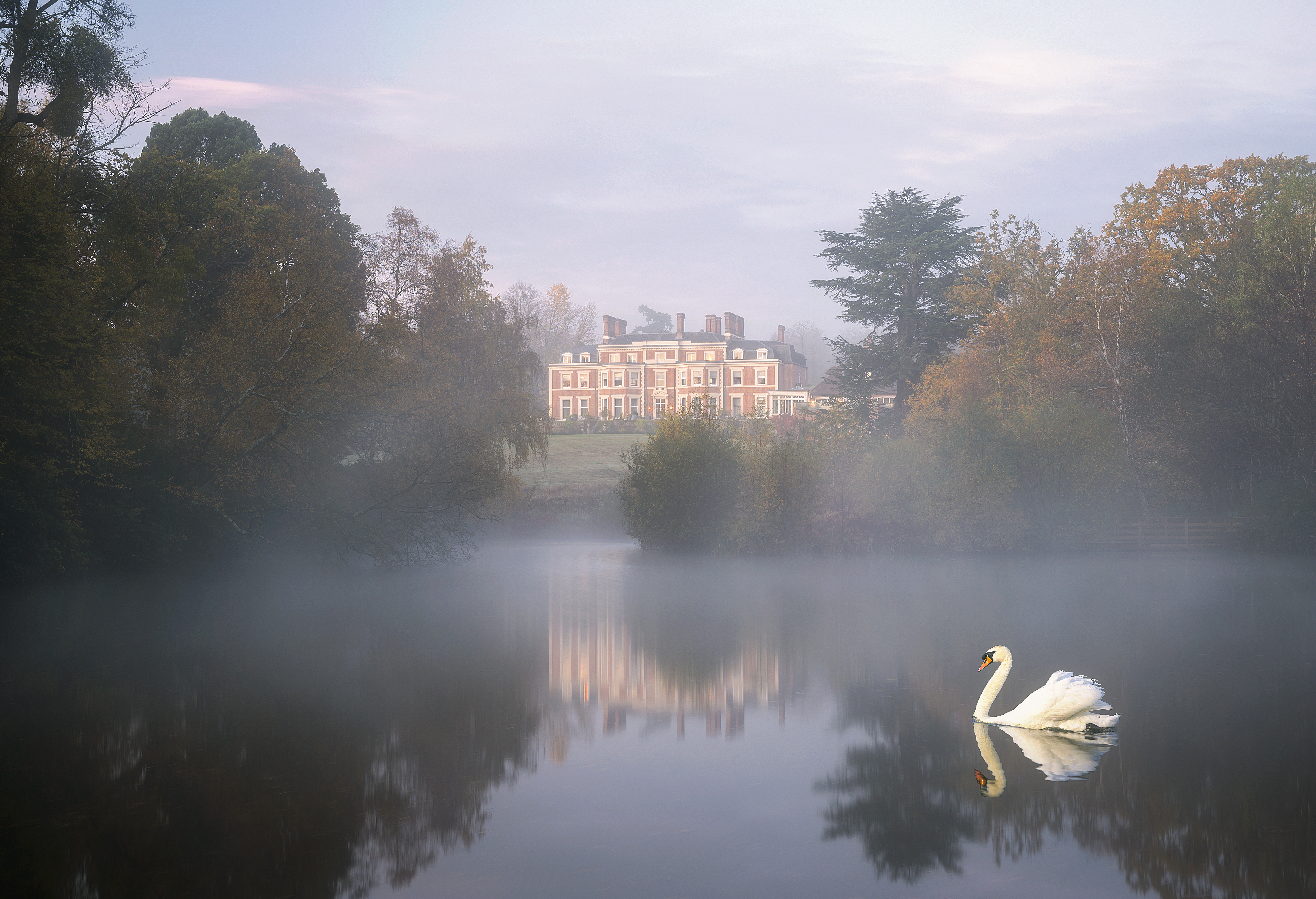 The House and the swan, Nov 19